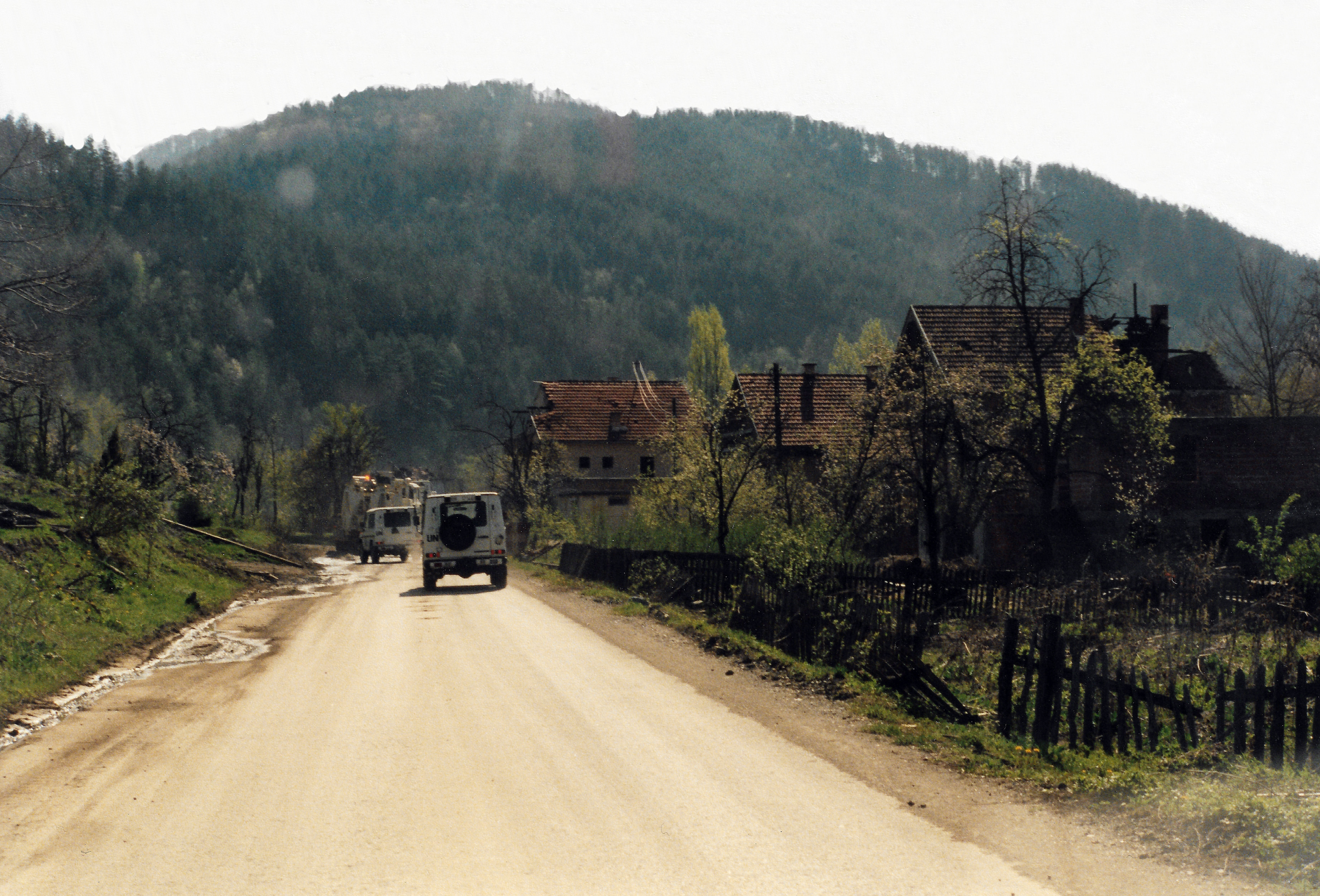 No man's land near Serbian position. Armed guidance. UNPROFOR. Dutch UN Transportbatallion. April 1995. Bosnia and Herzegovina.